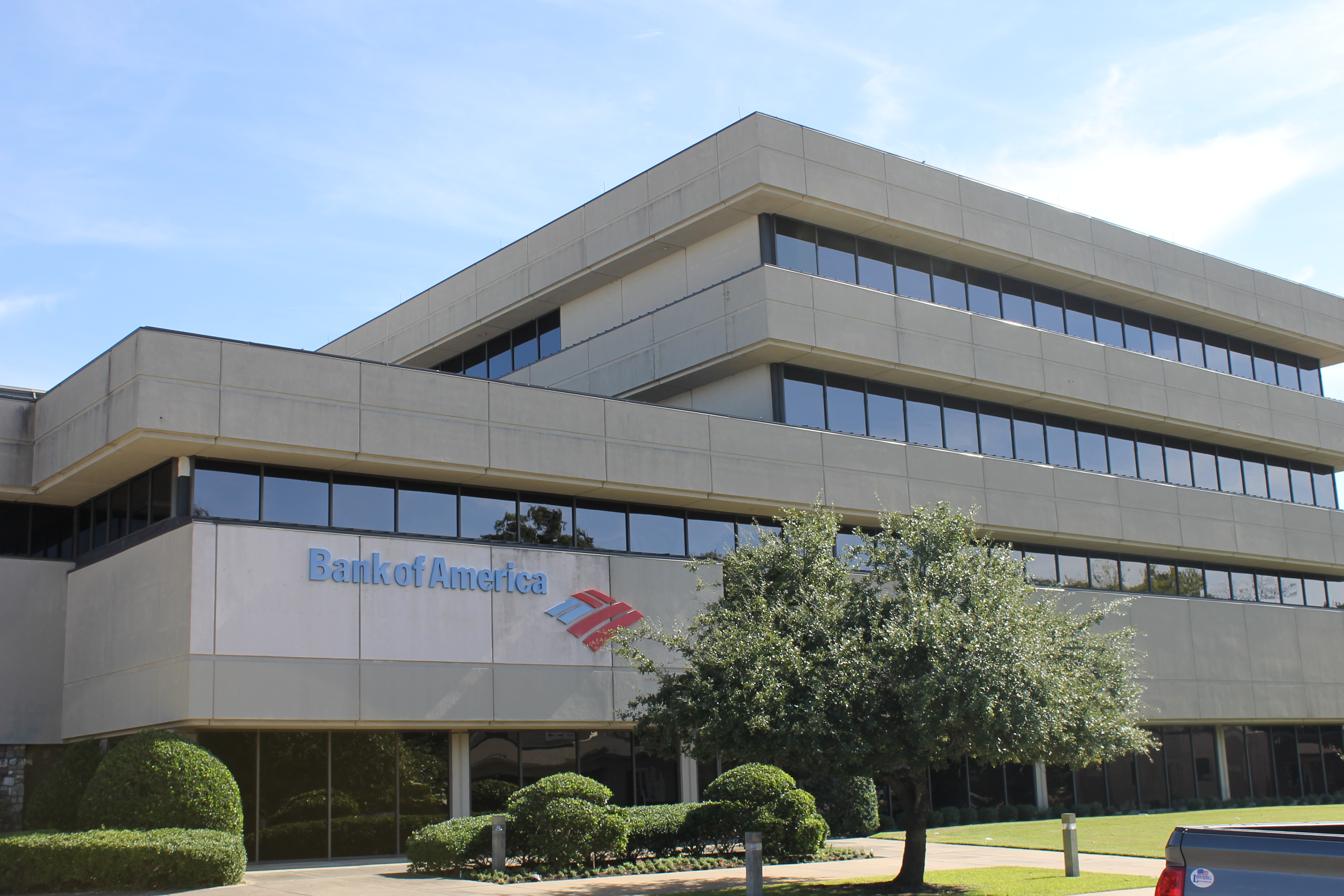 Bank of America in Lufkin, TX